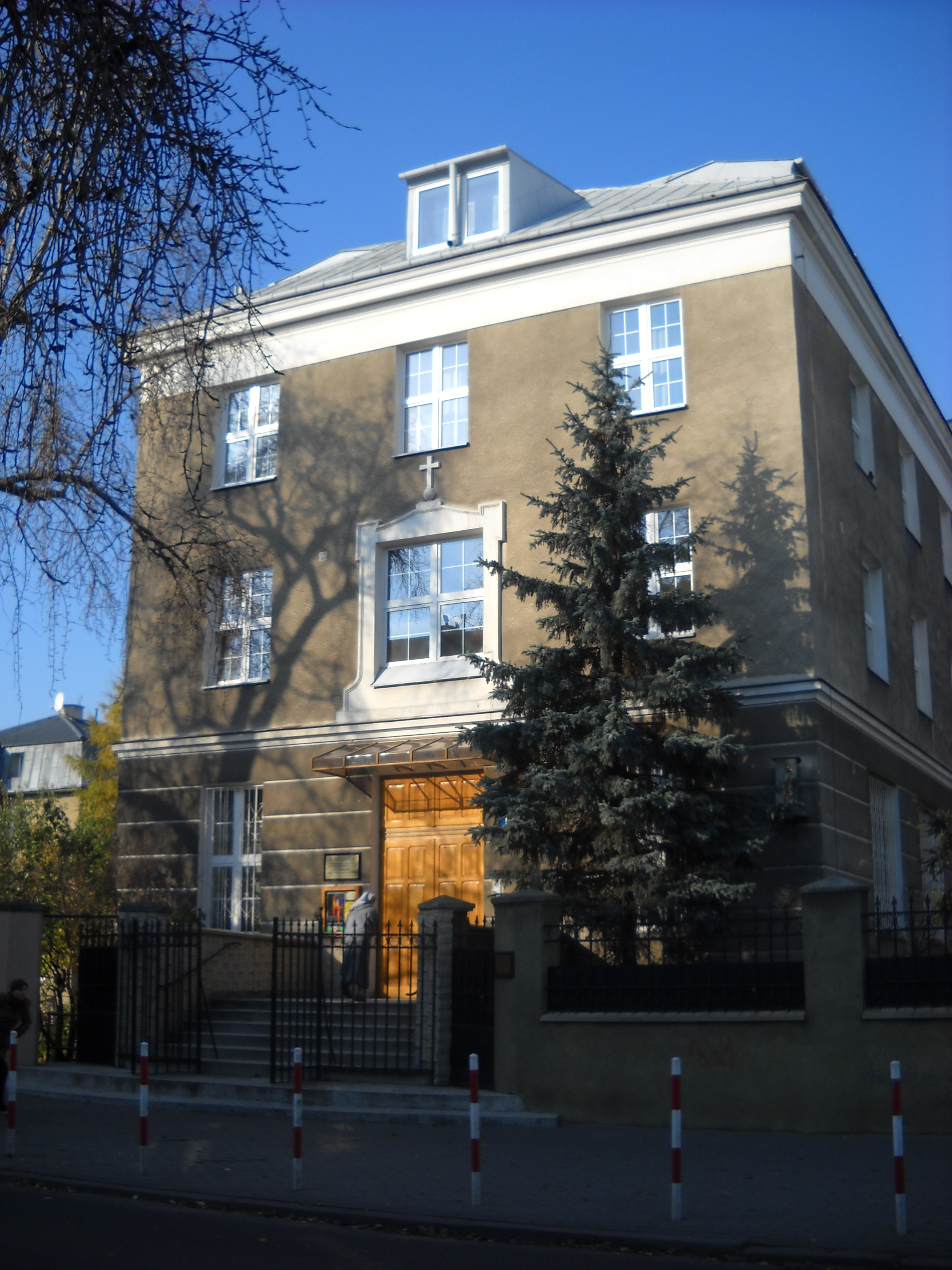 Convent of the Franciscan Sisters Missioners of Virgin Mary, Warsaw